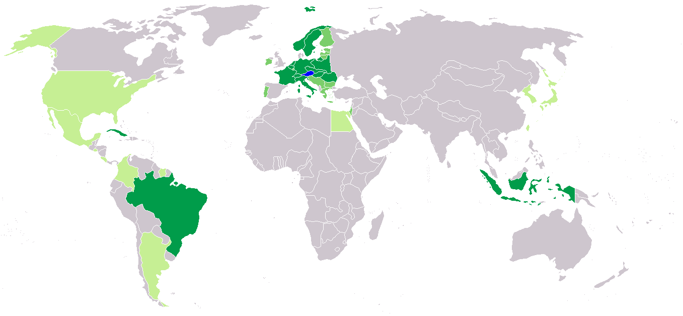 Qualification for the 1938 FIFA World Cup Country didn't participate Country withdrawed or entry didn't accepted by FIFA Country participated in the qualification tournament Country qualified to the finals Country qualified to the finals, but withdrawed